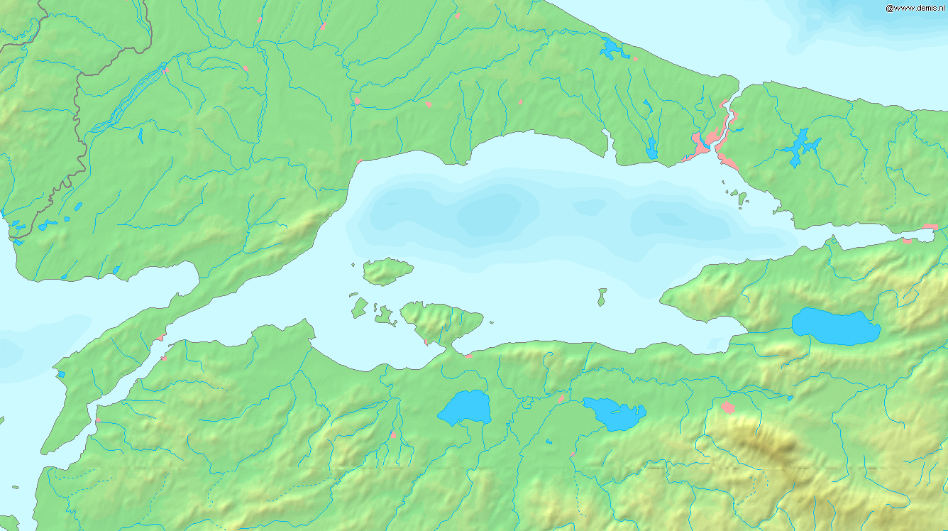 Map of the Sea of Marmara. Bounding box West 26°, South 39.8°, East 30°, North 41.5°.